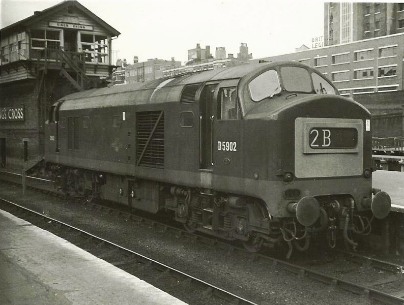 English Electric Type 2 (later Class 23) "Baby Deltic" 1,100hp Bo-Bo No.D5902 (as refurbished with headode panels compared to as built as part of the Pilot Scheme) in BR green livery with light green stripe and yellow warning panel draws light engine into Kings Cross to take out empty stock, 07/66. Scanned photograph taken with a Kowa SET camera.